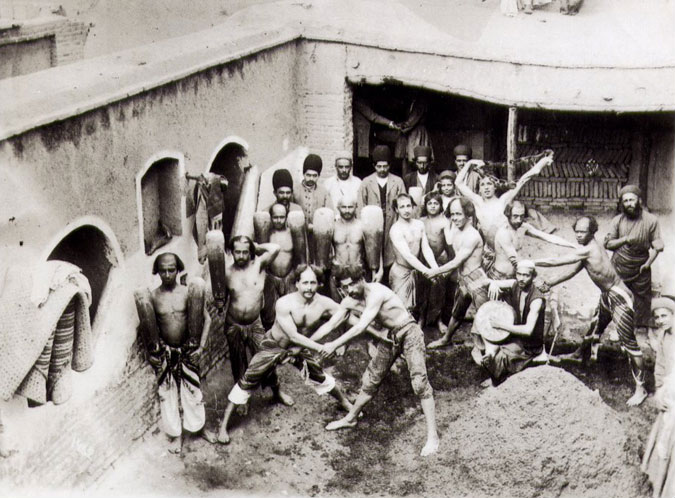 Zoorkhaneh sportsmen wrestlers. One of Antoin Sevruguin's historical Iran photographs.